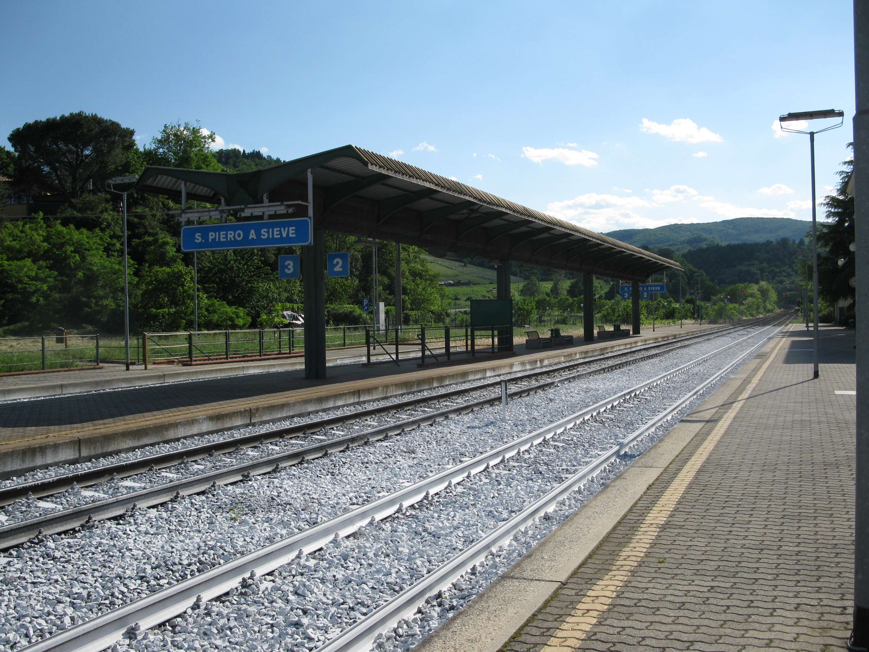 San Piero a Sieve railway station, station roof of platforms 2 and 3